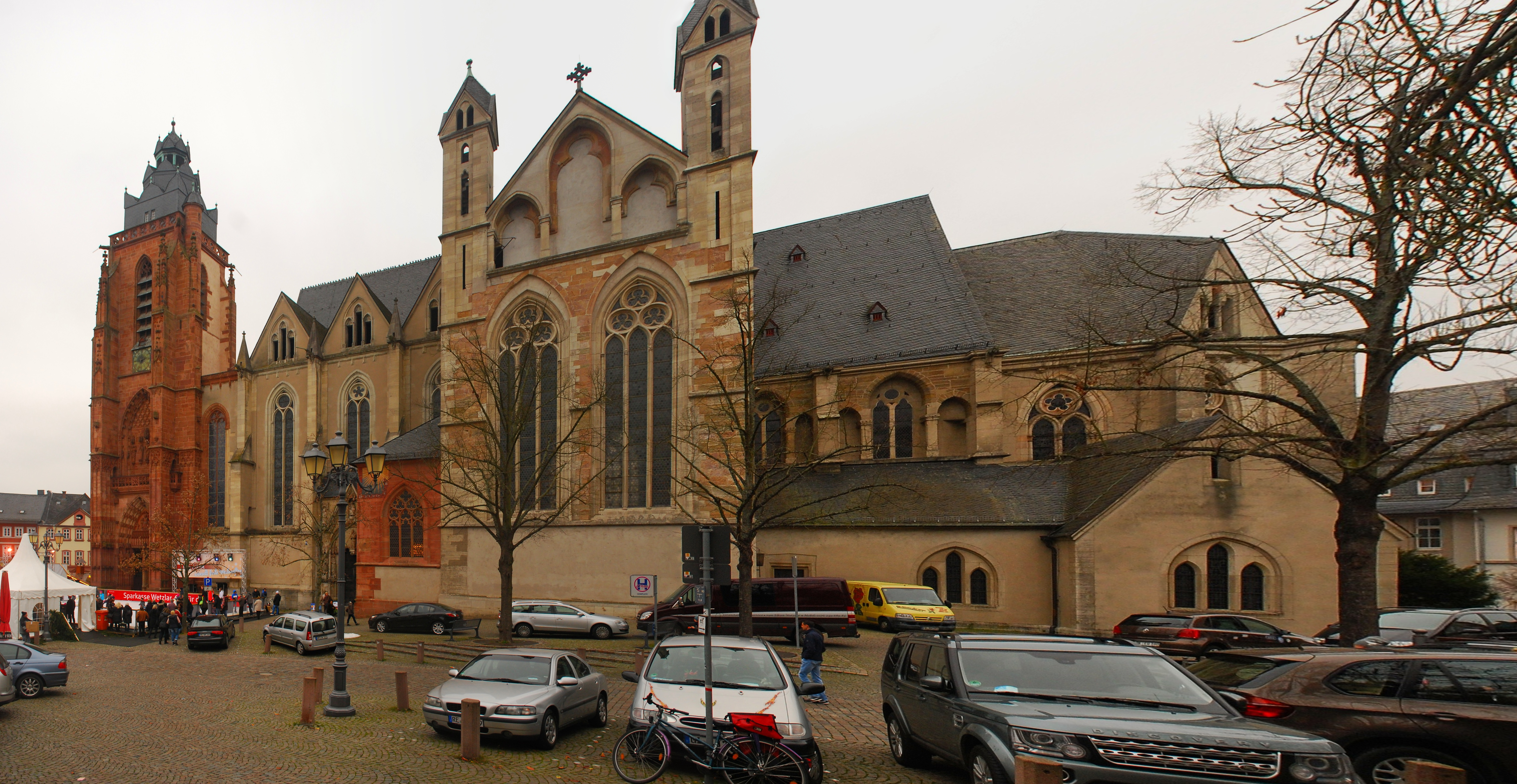 The cathedral in Wetzlar, Hesse, GermanyRomână: Catedrala din Wetzlar, landul Hessa, Germania